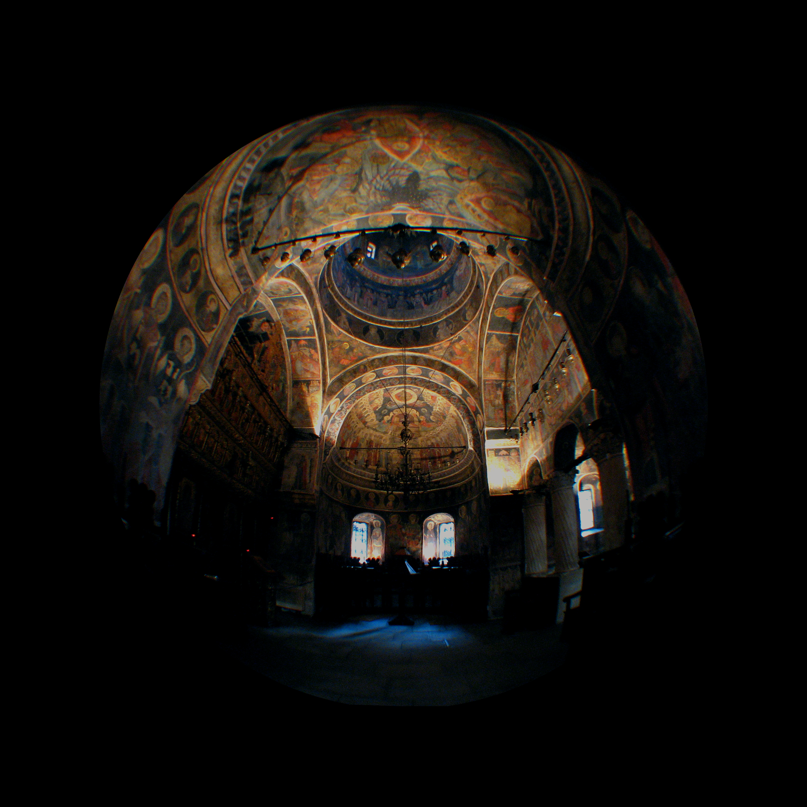 Stavropoleos Monastery, Bucharest, Romania